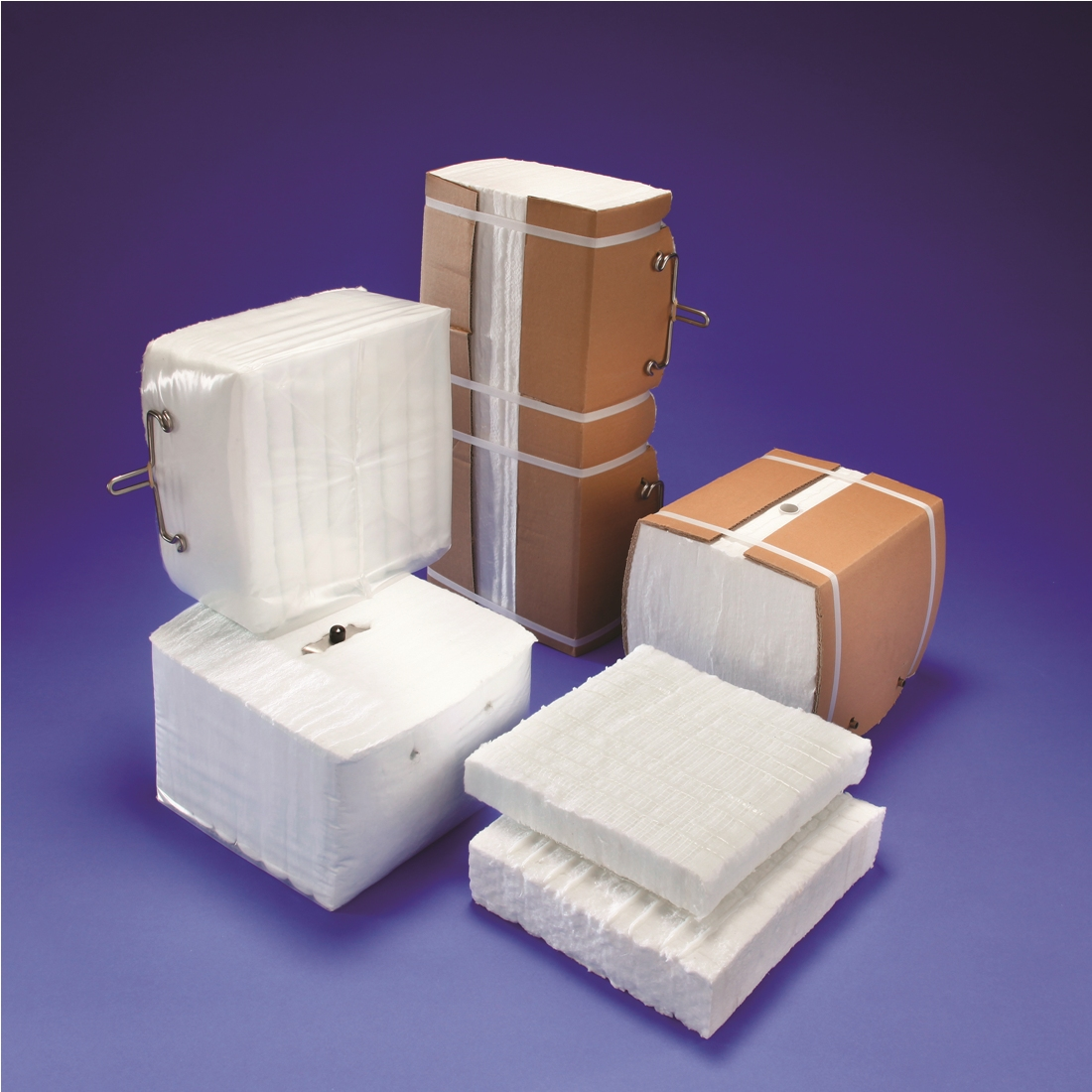 High Temperature Insulation Wool modules